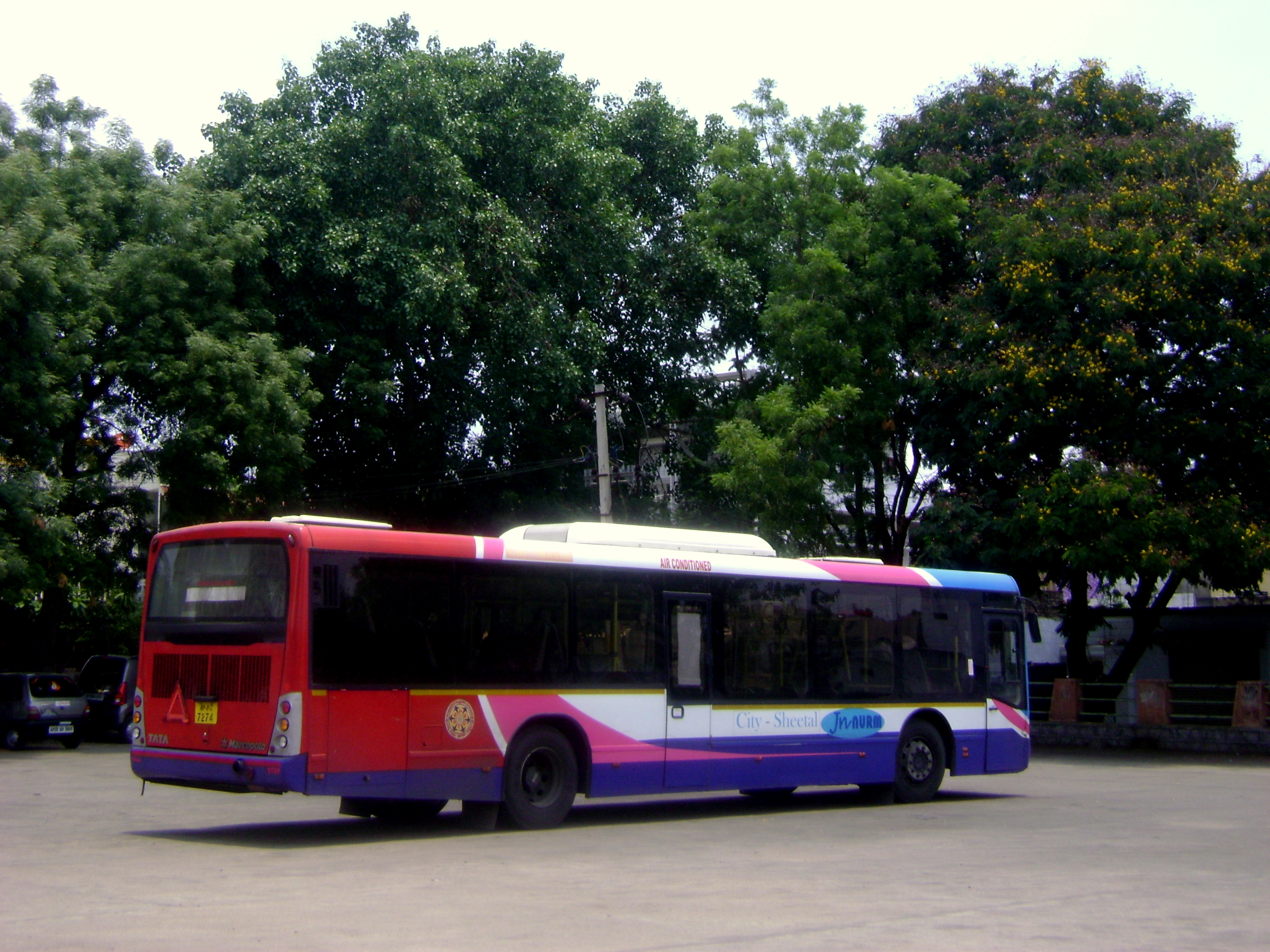 Tata marcopolo low floor bus